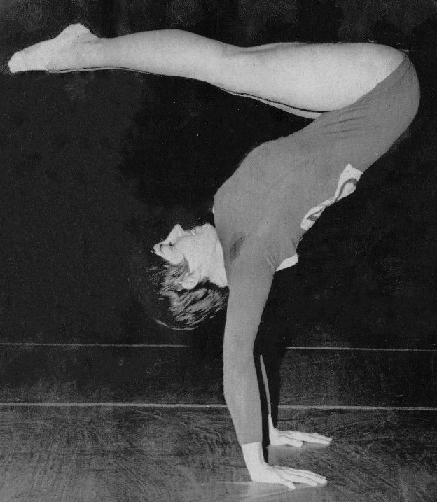 1967 Chicago IL Linda Metheny Yogi Handstand in Gymnastic Warmup Press Photo